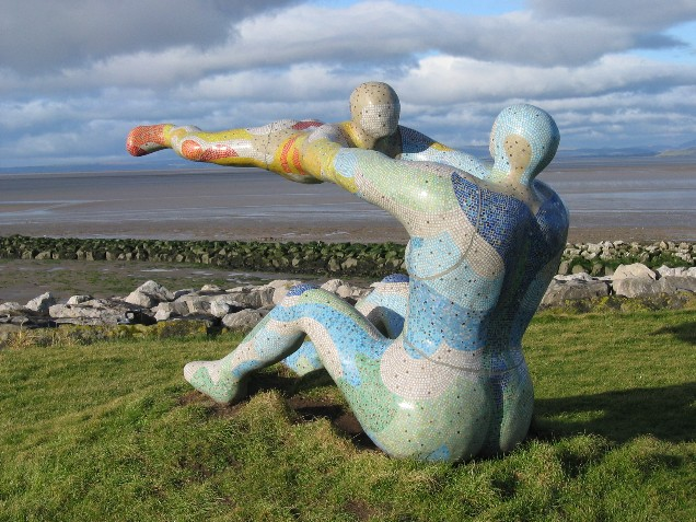 Venus & Cupid This sculpture by Shane A. Johnstone is sub-titled Love, the Most Beautiful of Absolute Disasters. It overlooks Morecambe Bay, and is dedicated those whom have been lost working on the sea.